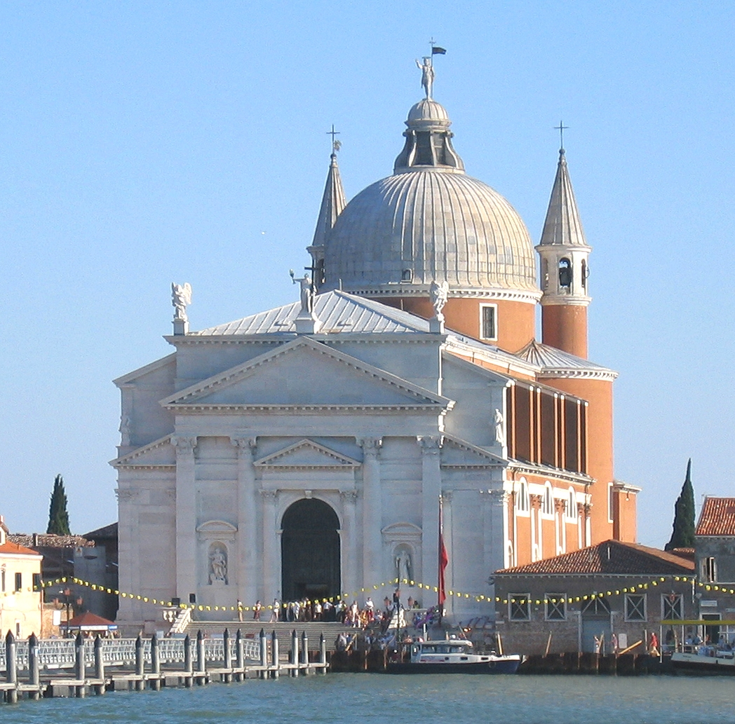 Chiesa del Redentore (Church of the Redeemer), Venice (Italy)